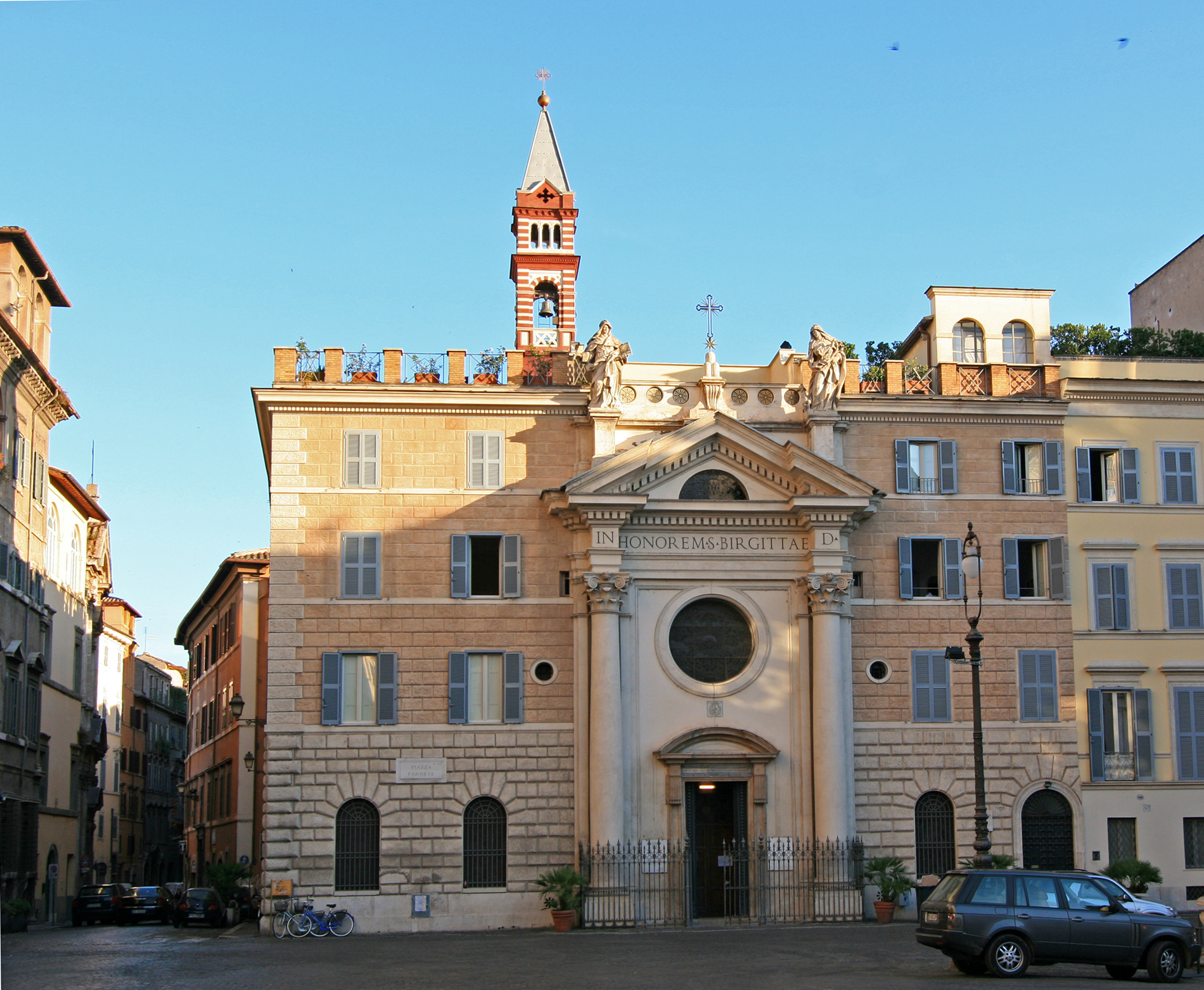 House and church of Santa Brigida, Rome.